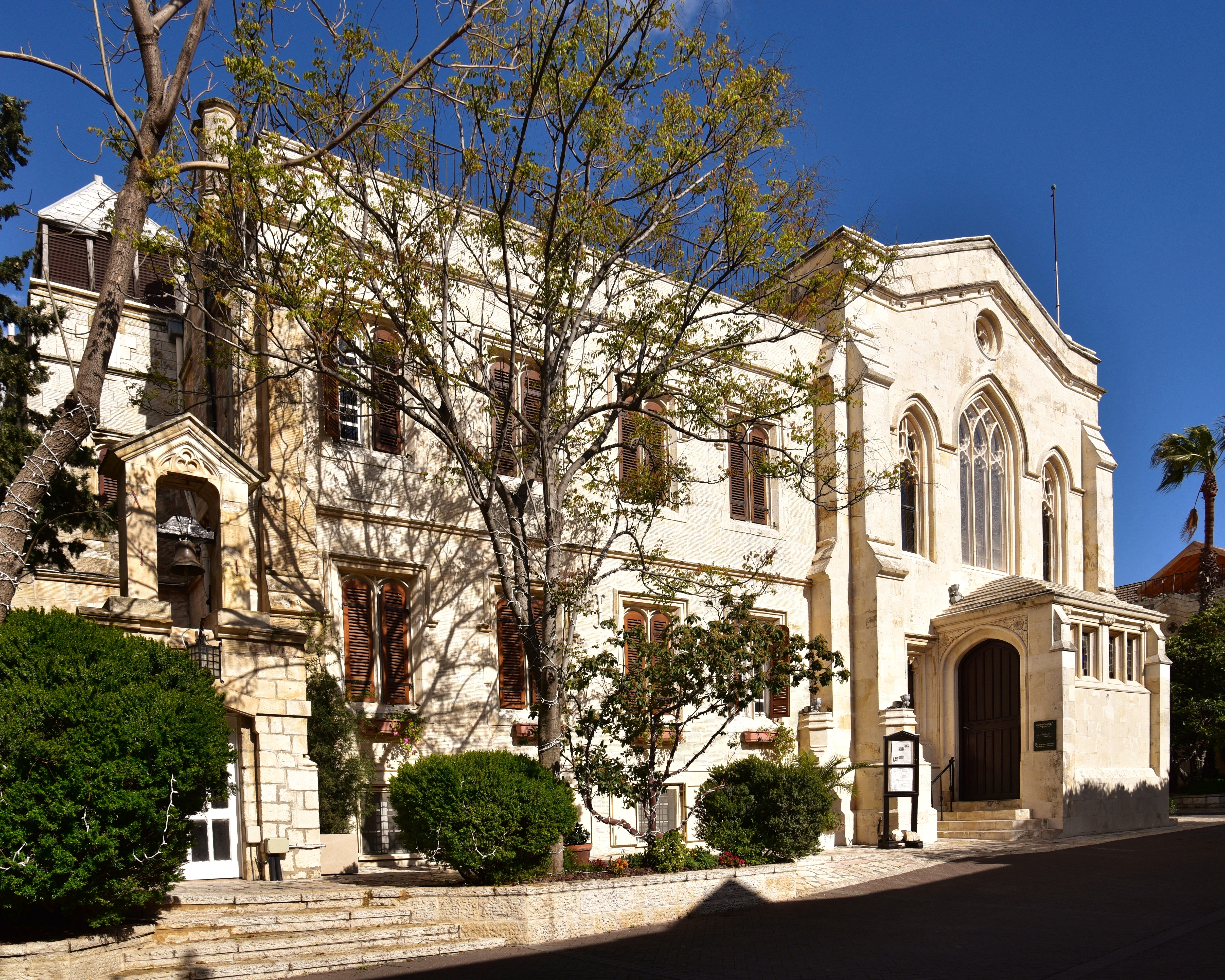 Exterior view of Christ Church, Jerusalem